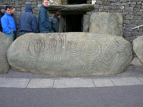 Newgrange entrance